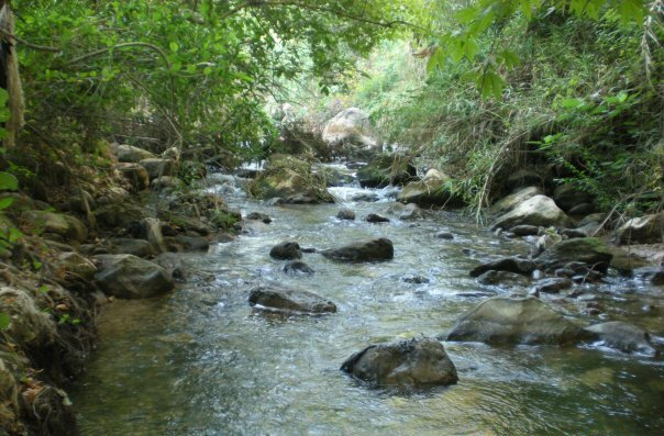 Nahr abu-Ali — stream near Kaferkahel, northern Lebanon.